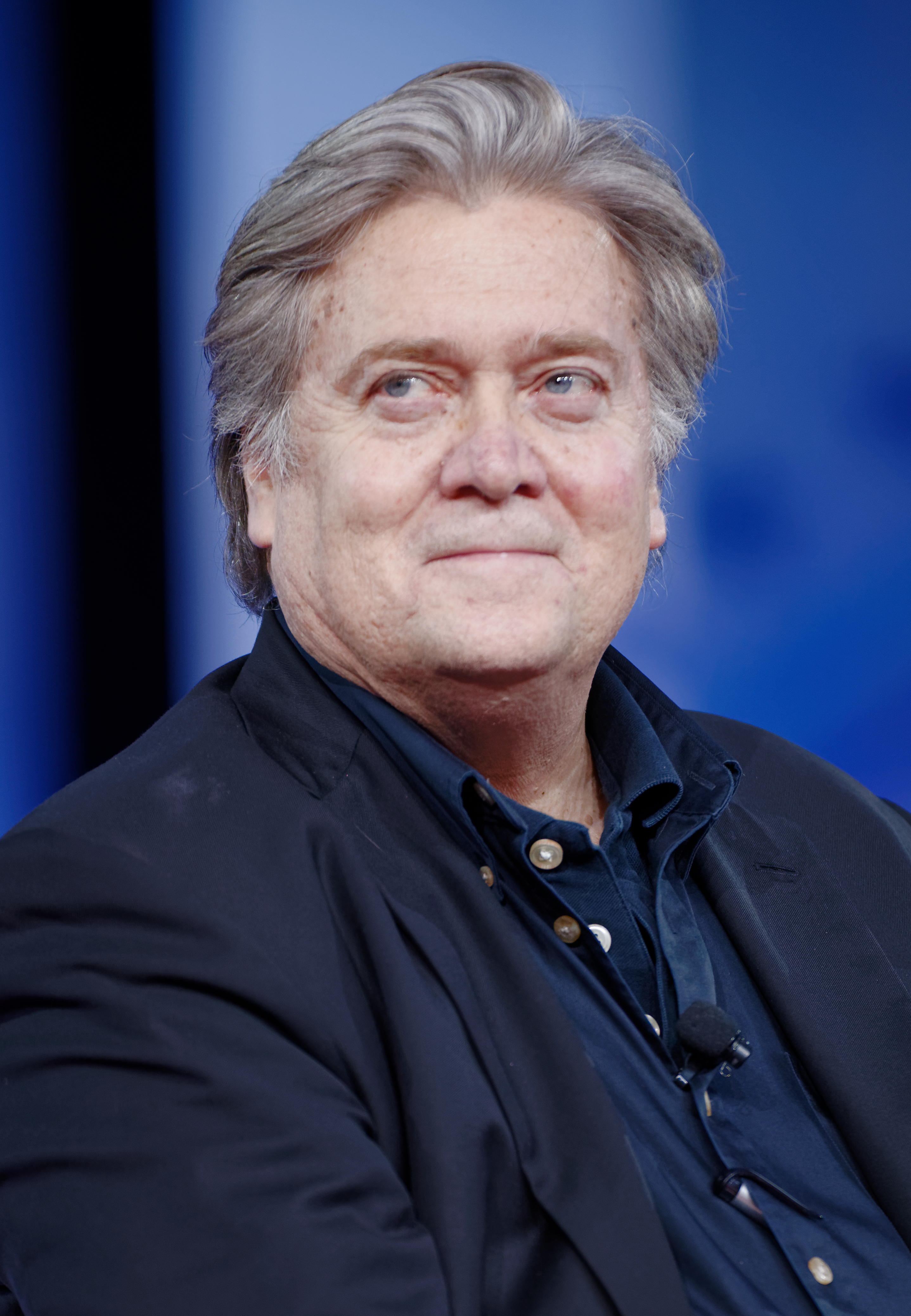 Stephen Kevin "Steve" Bannon (born November 27, 1953) is an American former banker and filmmaker, who is currently serving as assistant to the President and White House chief strategist in the Trump administration. In this capacity, since January 28, 2017, he has been a regular attendee to the Principals Committee of the National Security Council. Prior to assuming the White House position, Bannon was the chief executive officer of Trump's 2016 presidential campaign. Before his political career, Bannon served as executive chair of Breitbart News, a far-right[i] news, opinion, and commentary website which Bannon described in 2016 as "the platform for the alt-right".[I] Bannon took leave of absence from Breitbart in order to work for the campaign. After the election, he announced that he would resign from Breitbart. The Conservative Political Action Conference (CPAC; /ˈsiːpæk/ see-pak) is an annual political conference attended by conservative activists and elected officials from across the United States. CPAC is hosted by the American Conservative Union (ACU).[1] More than 100 other organizations contribute in various ways. In 2011, ACU took CPAC on the road with its first Regional CPAC in Orlando, Florida. Since then ACU has hosted regional CPACs in Chicago, Denver, St. Louis, and San Diego. Political front runners take the stage at this convention. Speakers have included Donald Trump,[2]Ronald Reagan,[3][4][5] George W. Bush,[6] Dick Cheney,[7] Pat Buchanan,[8] Karl Rove, Newt Gingrich,[6] Sarah Palin, Ron Paul,[9] Mitt Romney,[6] Tony Snow,[6] Glenn Beck,[10] Rush Limbaugh,[11] Ann Coulter,[7] Allen West,[12] Michele Bachmann,[13] Laura Ingraham, Sean Hannity, Gary Johnson, Mike Pence, Jeanine Pirro, Betsy DeVos, Lou Dobbs, and other conservative public figures.